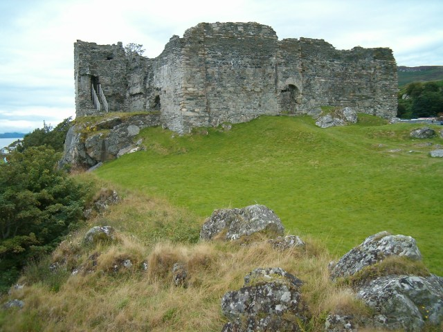 Castle Sween. Castle Sween is in the care of Historic Scotland. The castle was built in the late 12C by Suibhne, ancestor of the MacSweens, as a quadrangular enclosure with buildings on the inside. Towers were added in the 14C and 15C. From 1262, the castle was held by the Stewart Earls of Menteith, but after a period on the hands of the MacDonald Lords of the Isles, it reverted to the Crown in 1481, when James III appointed as Keeper Colin Campbell, 1st Earl of Argyll. It was abandoned in 1645.